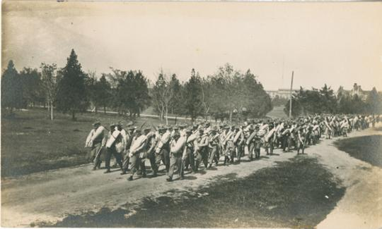 This is a picture of March to the Brazos, taken in 1910.